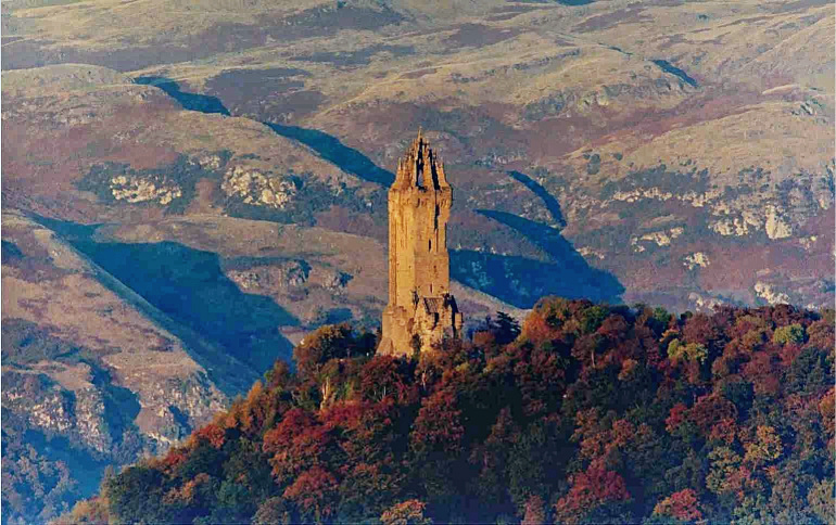 The Wallace Monument , Stirling, Scotland, in Autumn, Ochil hills in the background. [ via a long telephoto Lens ]